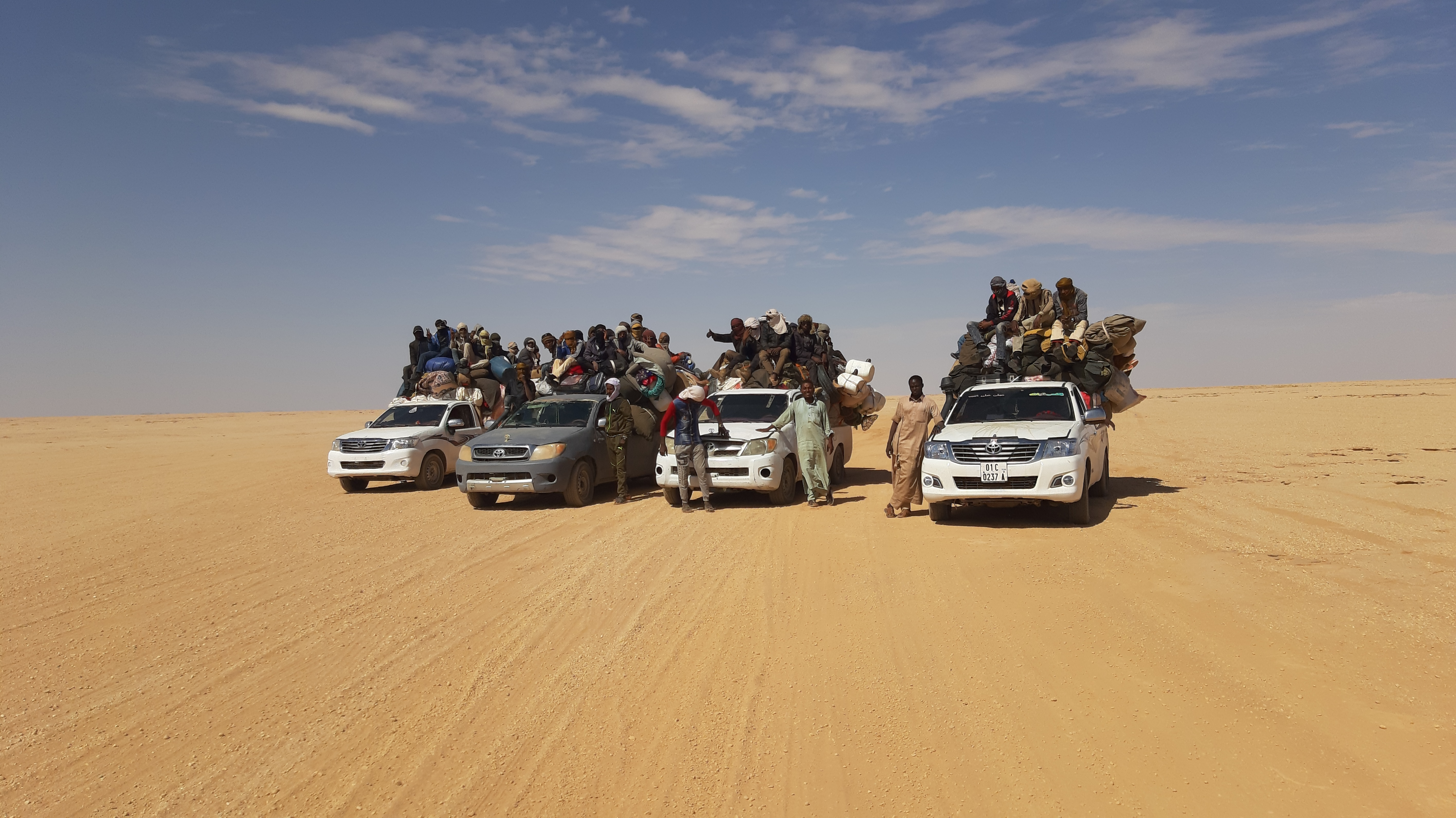 This is an image with the theme "Africa on the Move or Transport" from: Chad